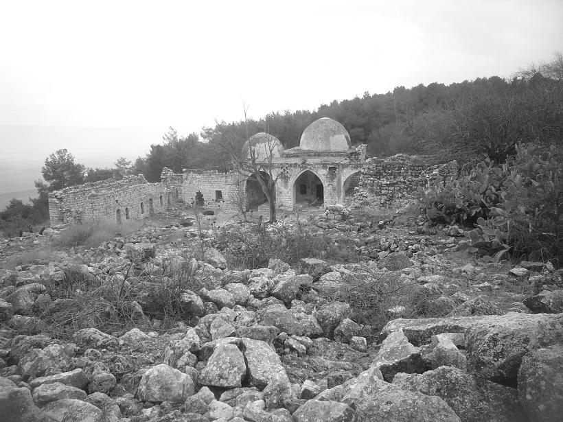 Nebi Yusha in Israel